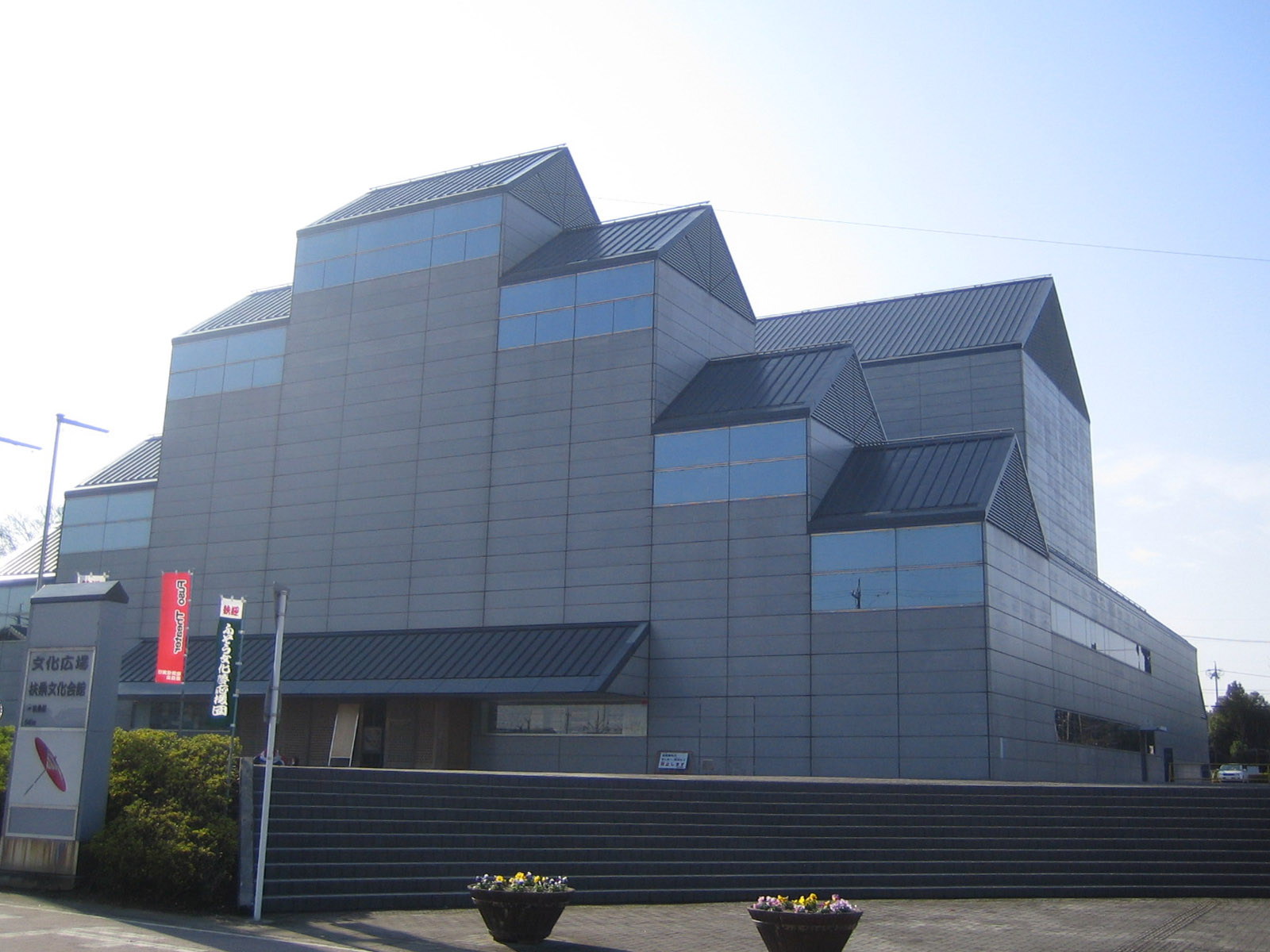 Fuso Theater (扶桑町文化会館: literally, "Fuso Town Cultural Hall"), at Fuso, Aichi, Japan